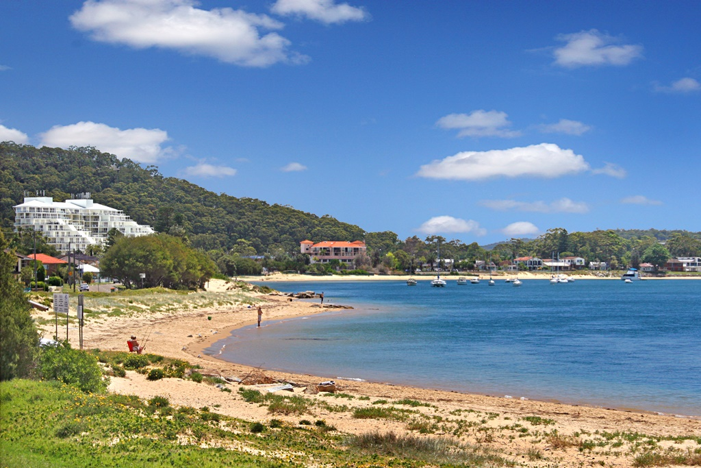 Culwulla